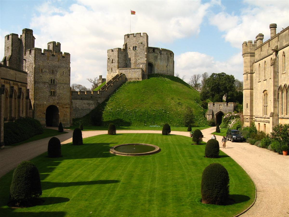 Arundel Castle - motte and quadrangle Photo taken by Luke van Grieken on 18 April 2006 using a Canon IXUS 750 camera. Additional castles images available at